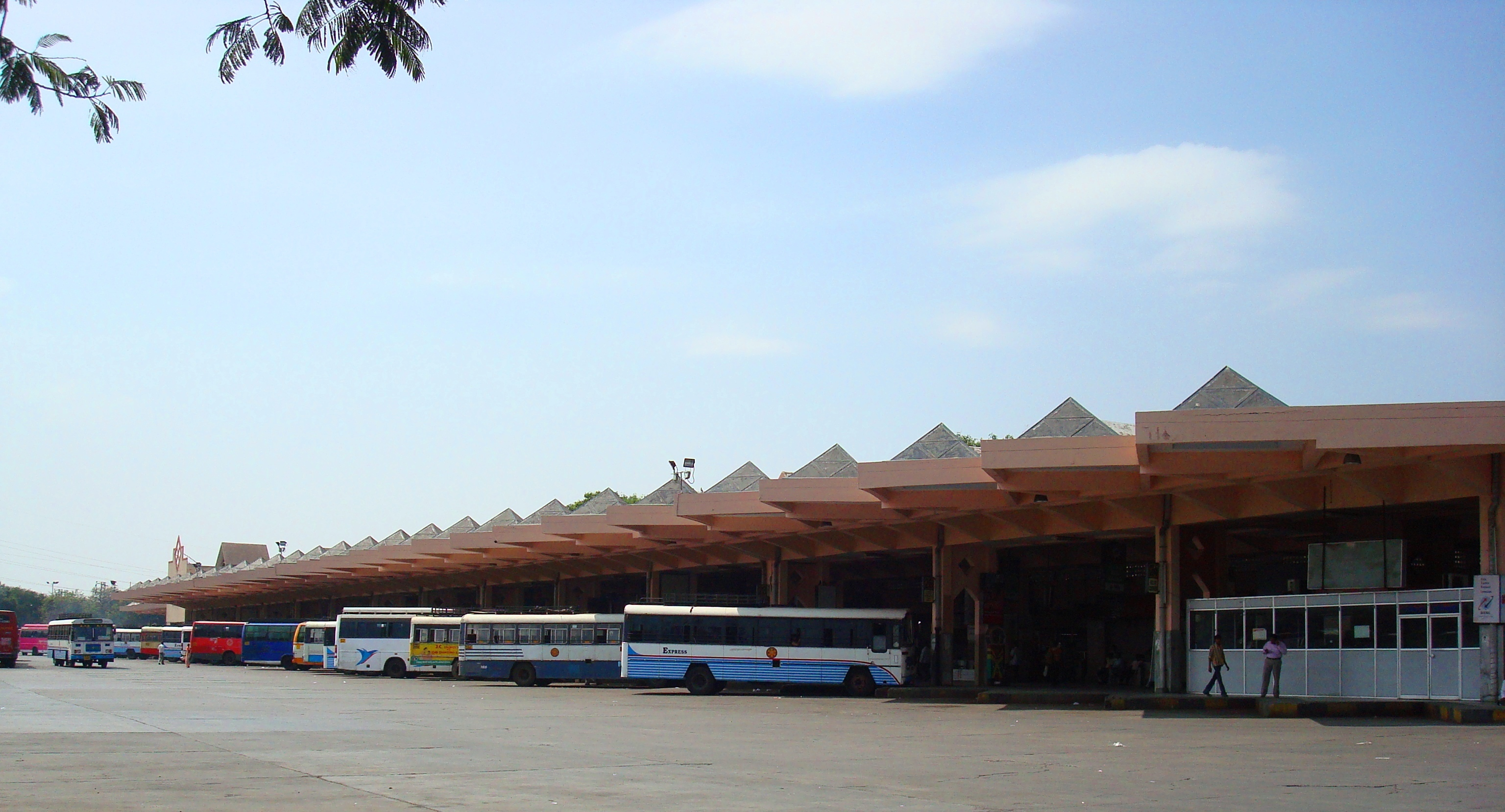 This picture shows a partial view of the Mahatma Bus station. self photographed